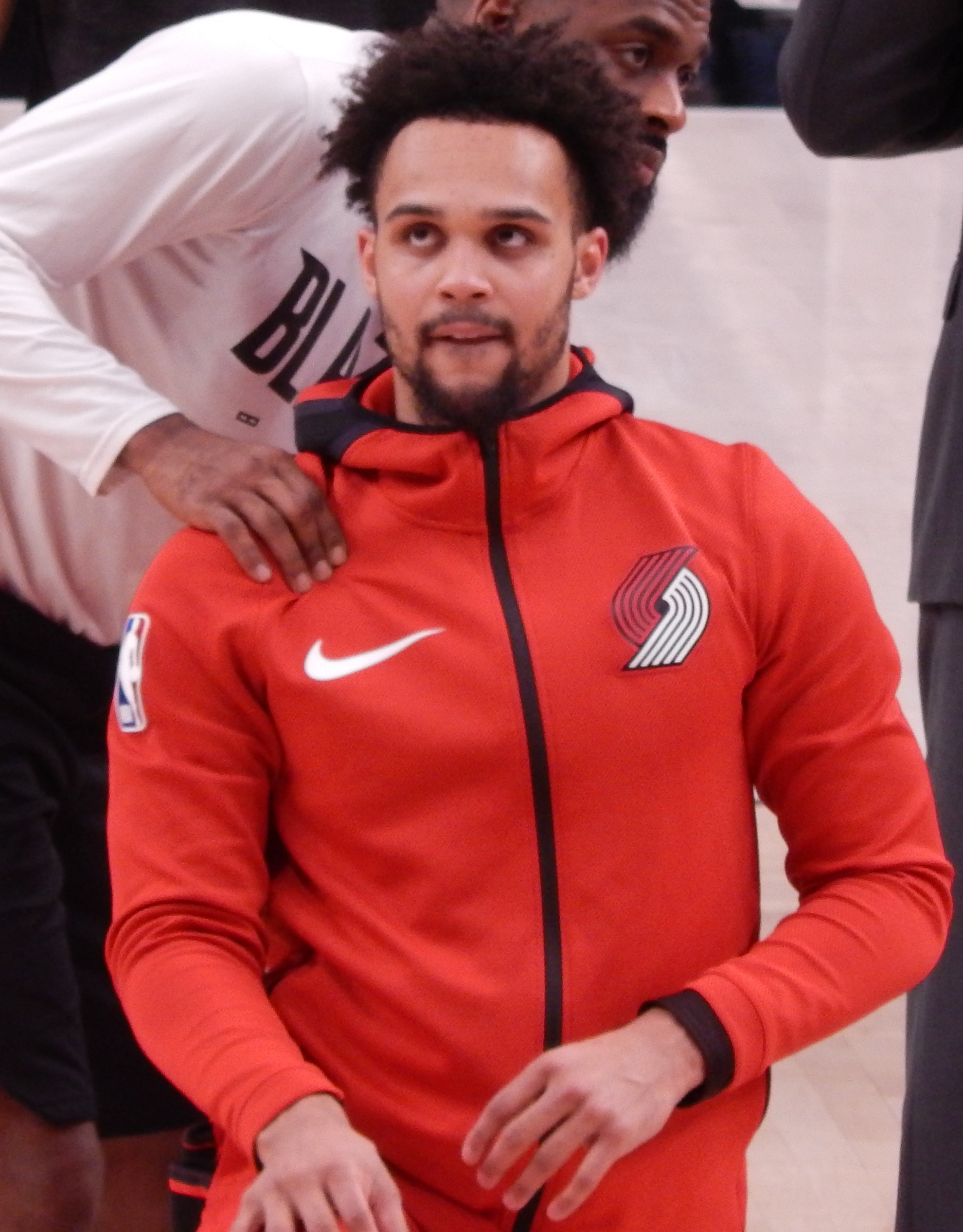 Gary Trent Jr. #2 of the Portland Trail Blazers gets a pre-game back massage in a game against the Cleveland Cavaliers on January 16, 2019 at Moda Center in Portland, Oregon.